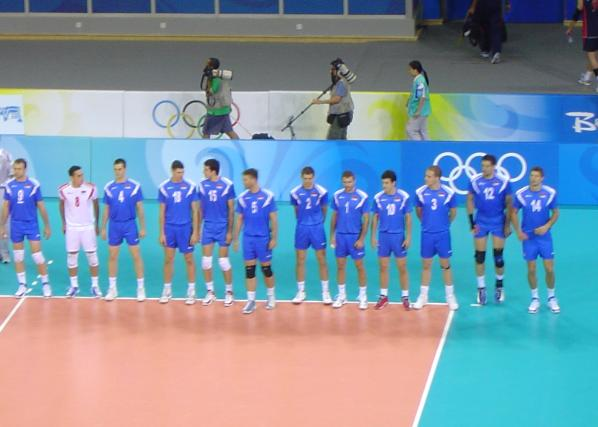 The Serbien volleyball team at the 2008 Summer Olympics just before the match against Brazil in the group states. From the left: Grbić, Samardžić, Janić, Podraščanin, Starović, Petković, Bojović, Kovačević, Nikić, Bjelica, Gerić, Miljković